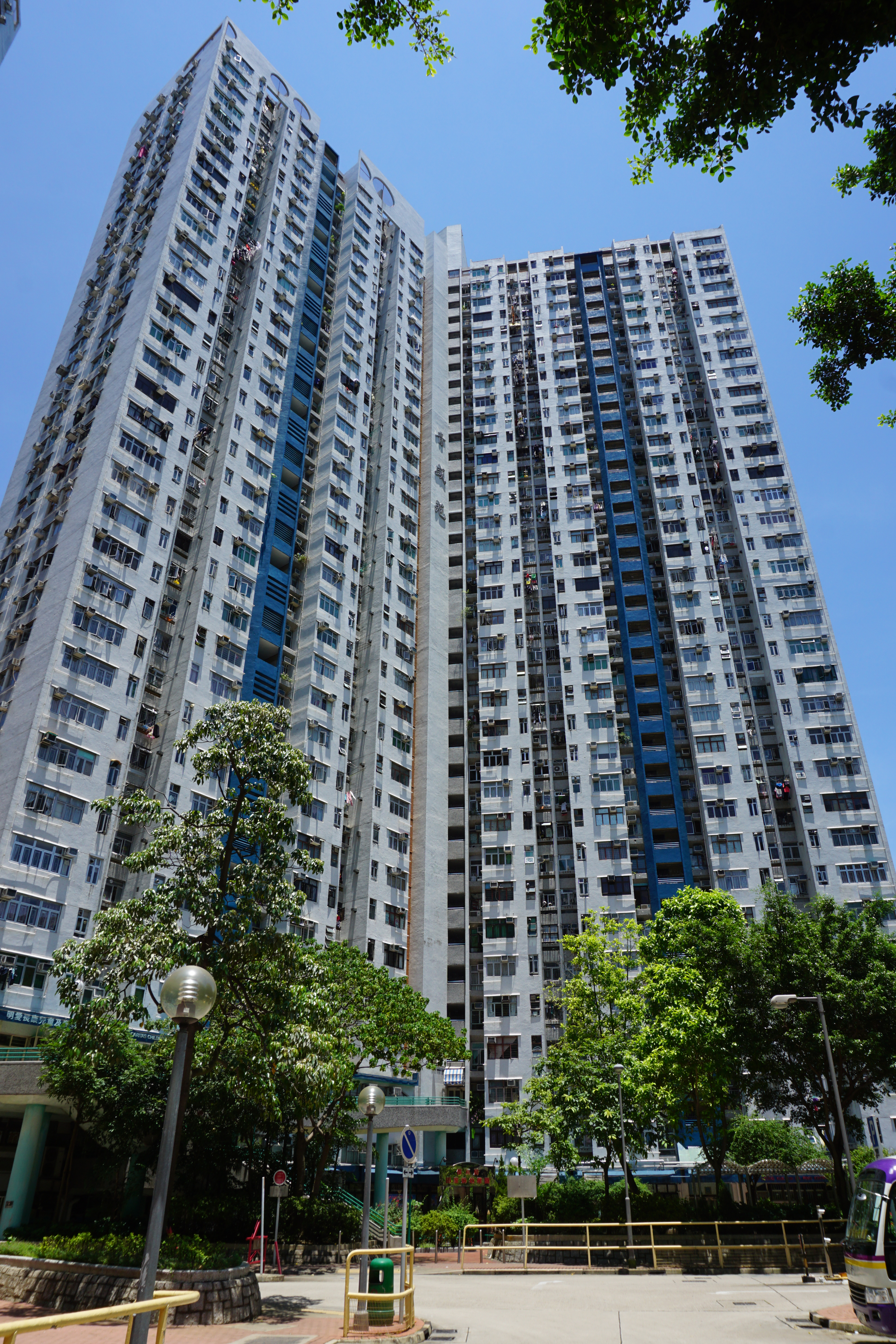 Ching Shing Court in Tsing Yi, Hong Kong.